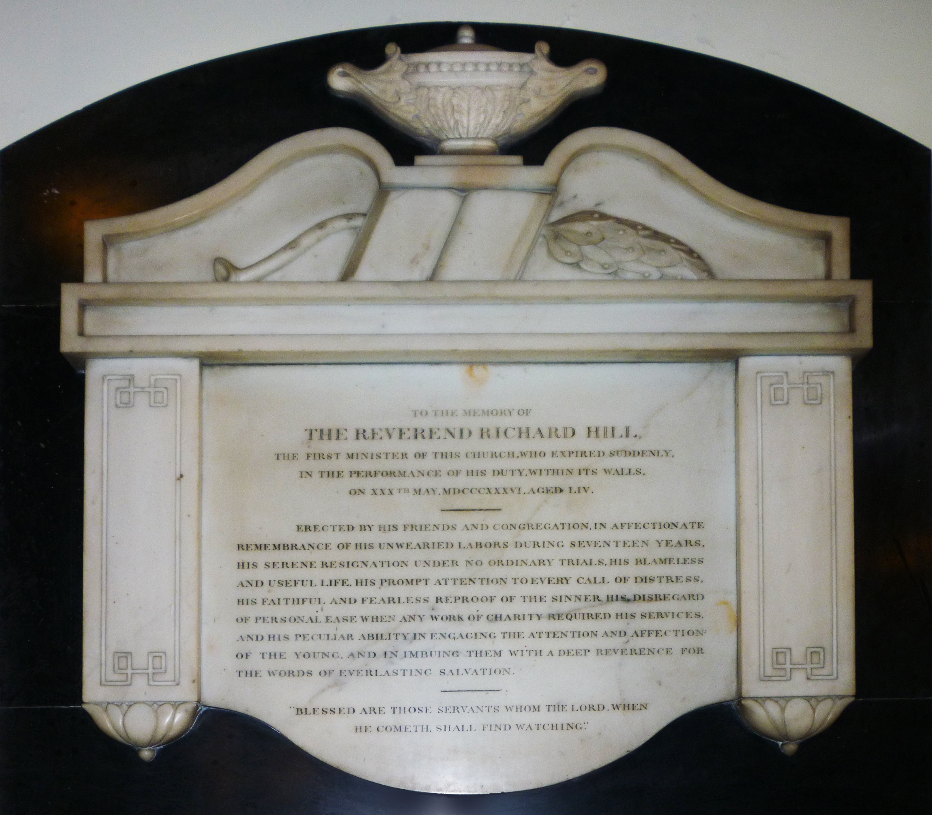 Memorial plaque to the Reverend Richard Hill (died 1836) in St James' Church, Sydney